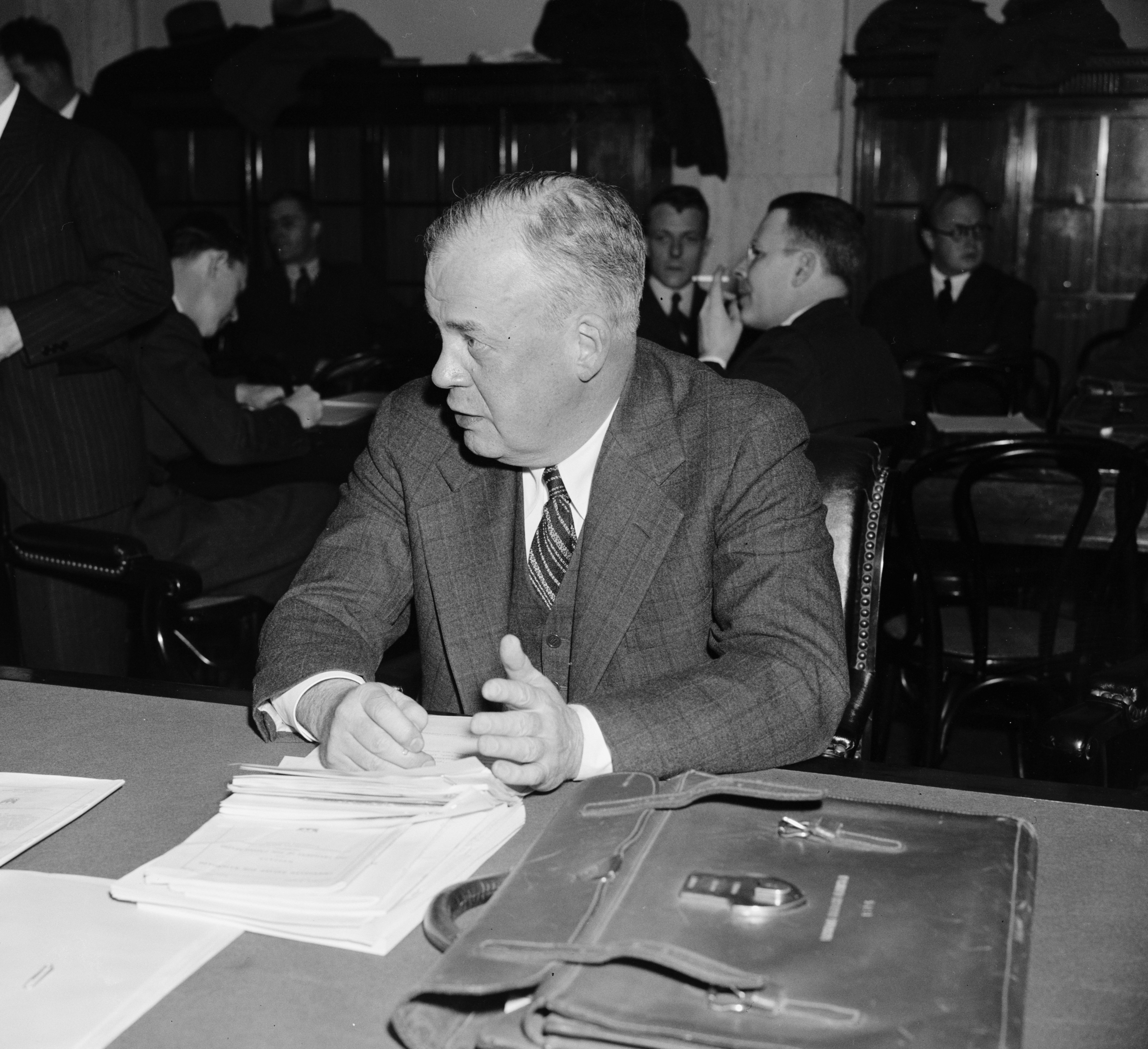 Title: 10 per cent railroad rate increase benefits motor carriers--ICC Commissioner Eastman. Washington, D.C., April 13. ICC Commissioner Joseph B. Eastman today told a Senate Interstate Commerce Subcommittee that he believed the 10 per cent rate increase granted the railroads last summer has been "Of more benefit to the motor carriers than to the railroads." Advocating a balanced system of transportation charges between rail, motor and water carriers, Eastman said that contrary to popular belief, rate wars between the three do not benefit the public, 4-13-39 Abstract/medium: 1 negative : glass ; 4 x 5 in. or smaller